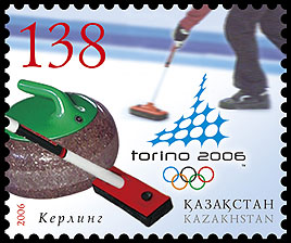 Stamp of Kazakhstan